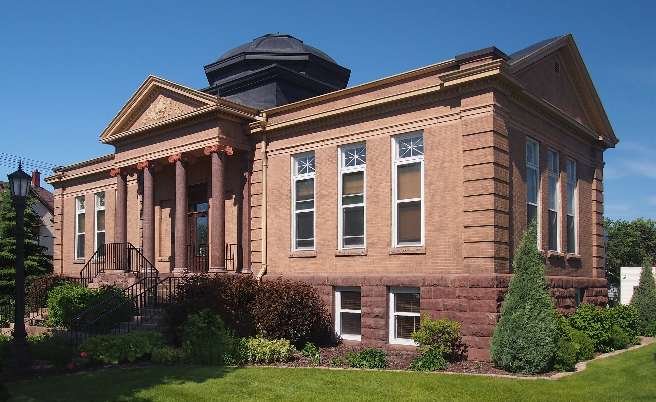 Brainerd Carnegie Library, 206 N 7th St, Brainerd, Minnesota, USA. Viewed from the southwest.